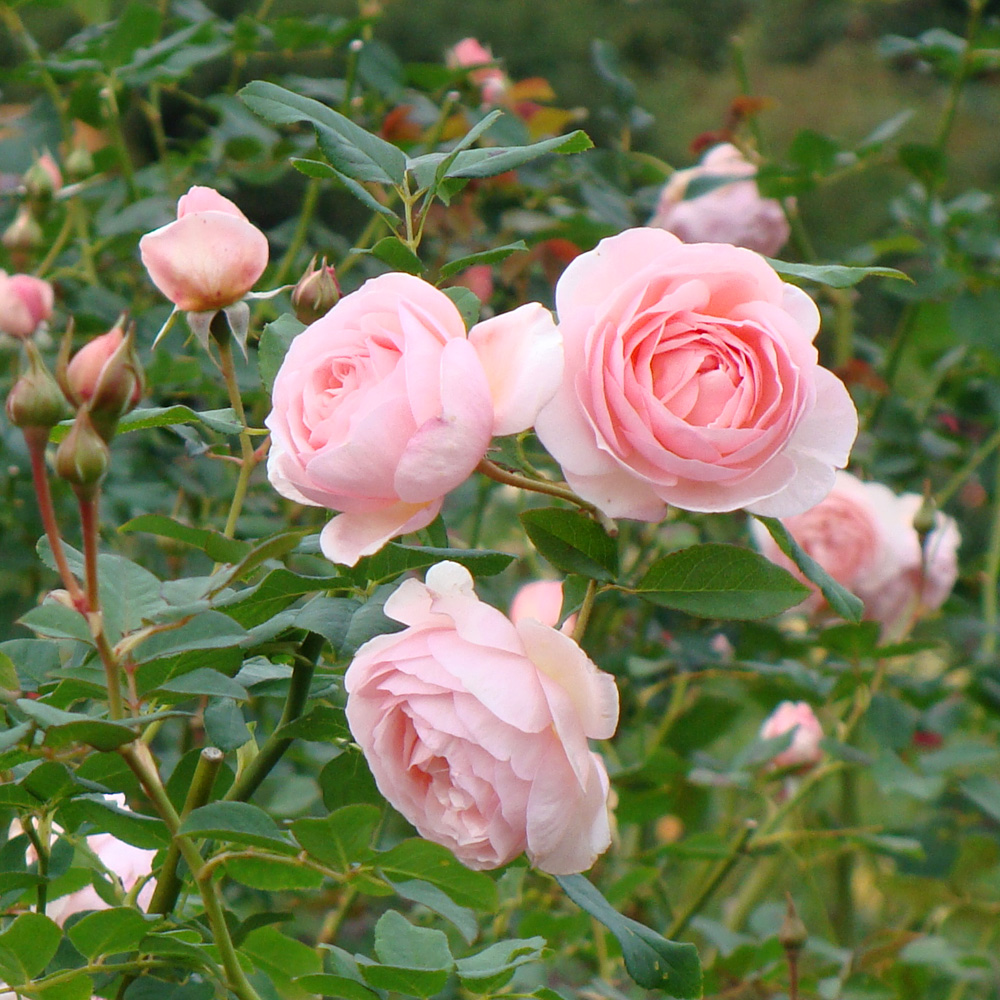 English Rose Ambridge Rose アンブリッジローズ United Kingdom イギリス Austin 1983